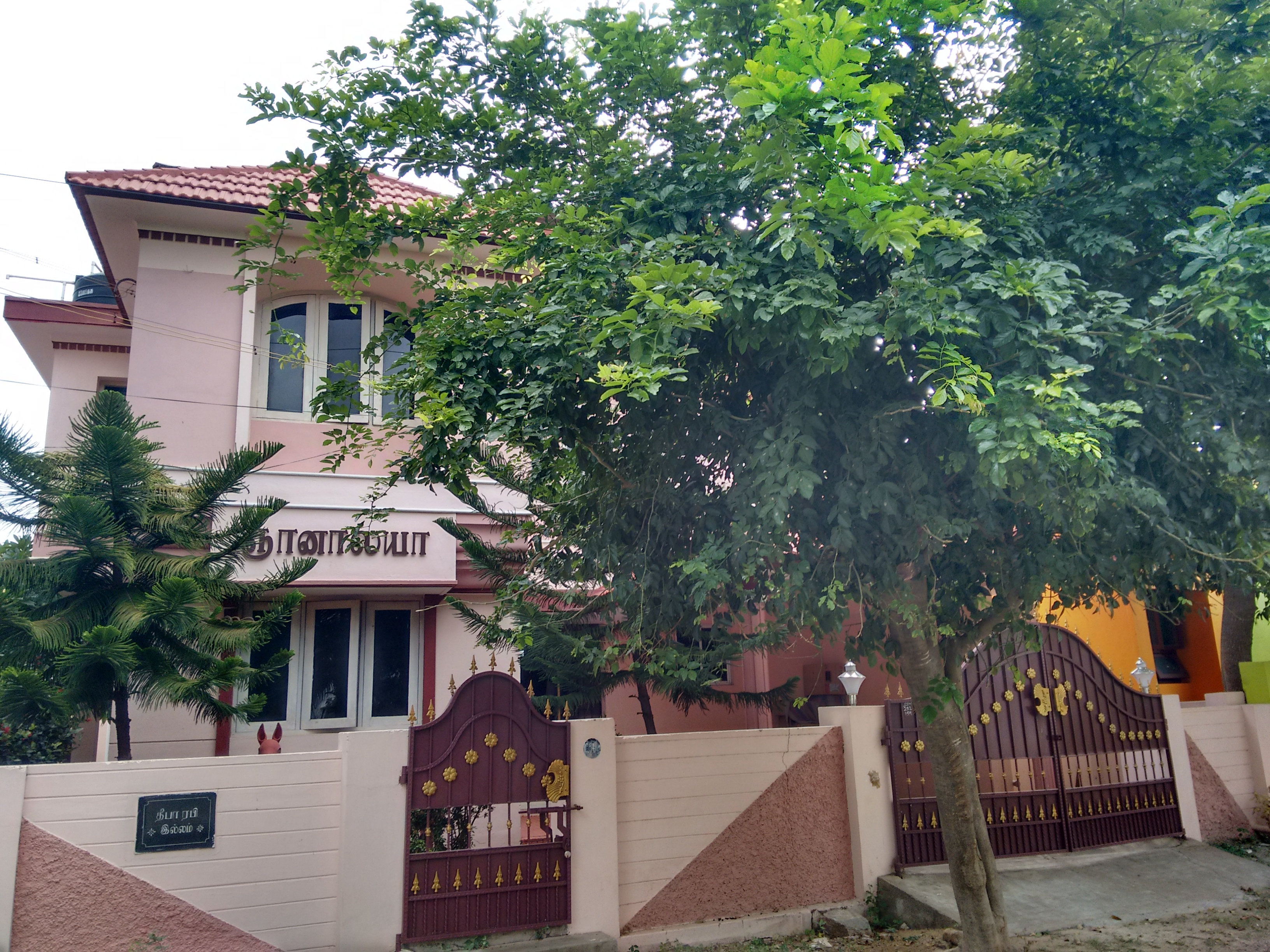 Gnanalaya Research Library, Pudukottai ஞானாலயா ஆய்வு நூலகம், புதுக்கோட்டை